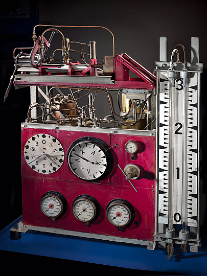 Rocket Test Stand No. 2, American Rocket Society (ARS)